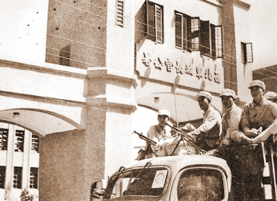 PLA Army entering Lanzhou city after winning Lanzhou Campaign in Chinese Revolution (1946−1952). The building on the left is the house of the military and governmental officer in Northwest China.